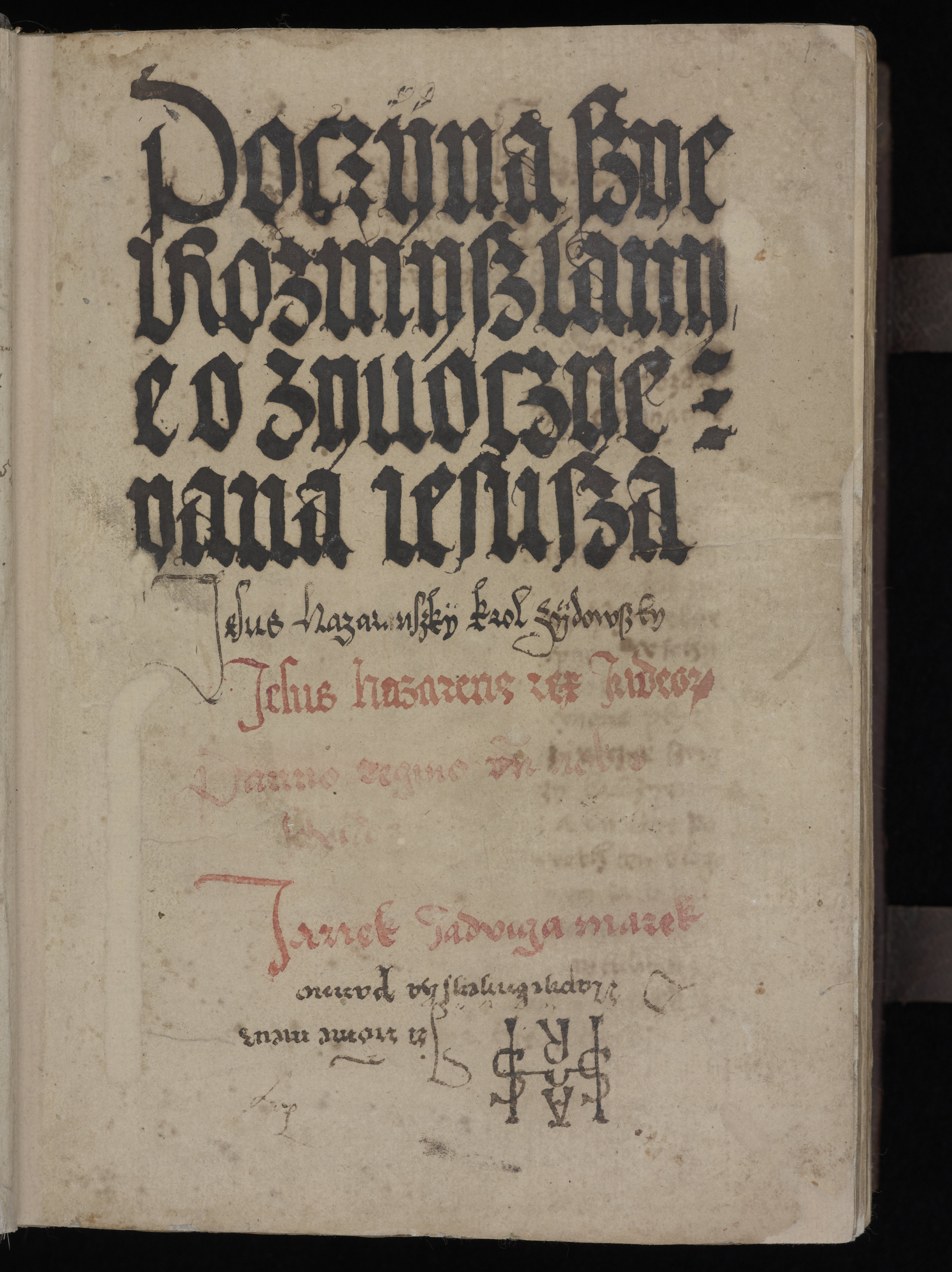 A page from a Polish language manuscript "The Meditation on Life of Lord Jesus"